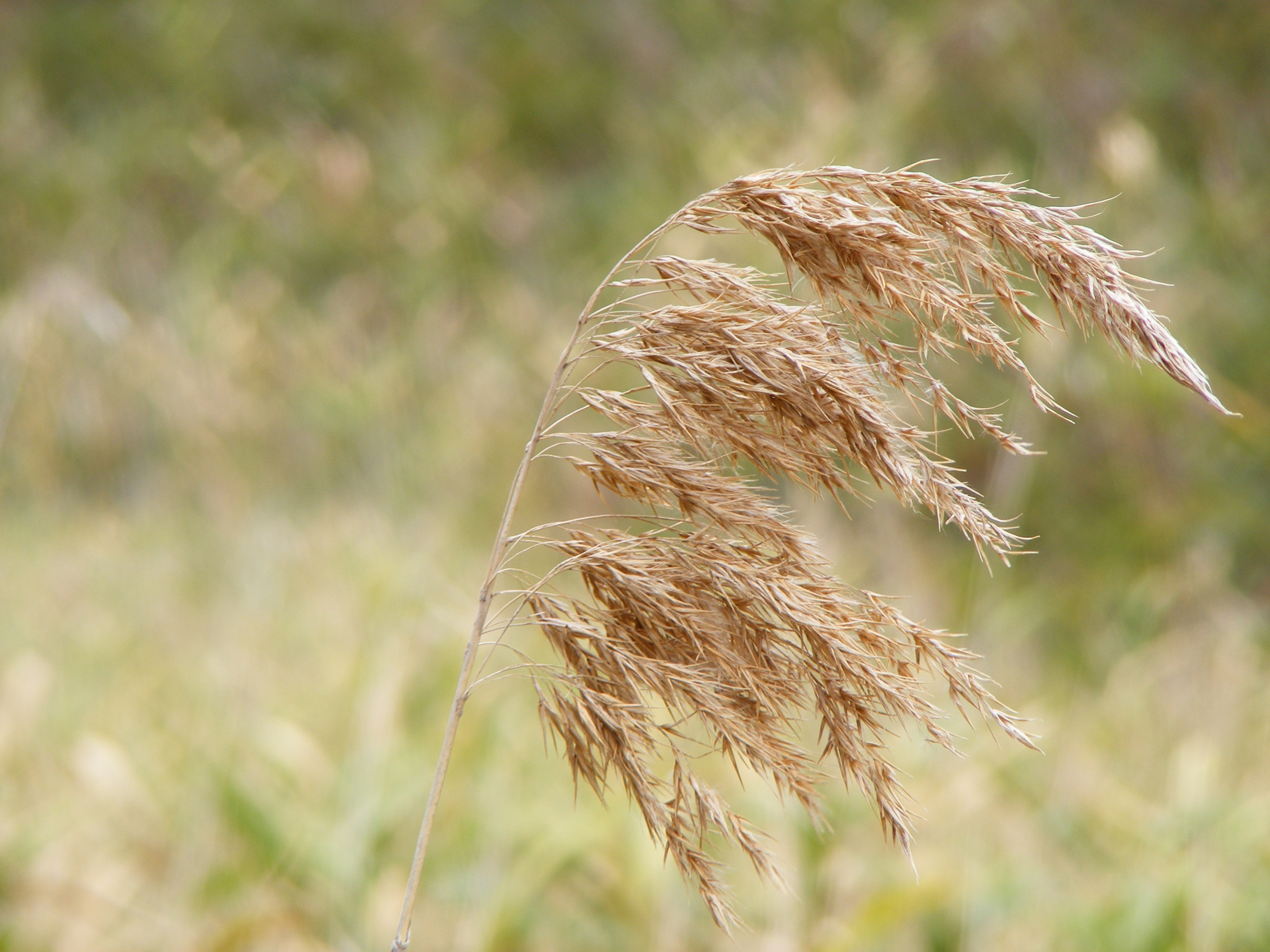 Austrostipa nodosa (spear grass) dried out at the beginning of summer. In Anstey Hill recreation park in Adelaide, South Australia